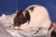 I took this with a Canon 350D. It's a picture of Cloud, a Black and White hooded rat.